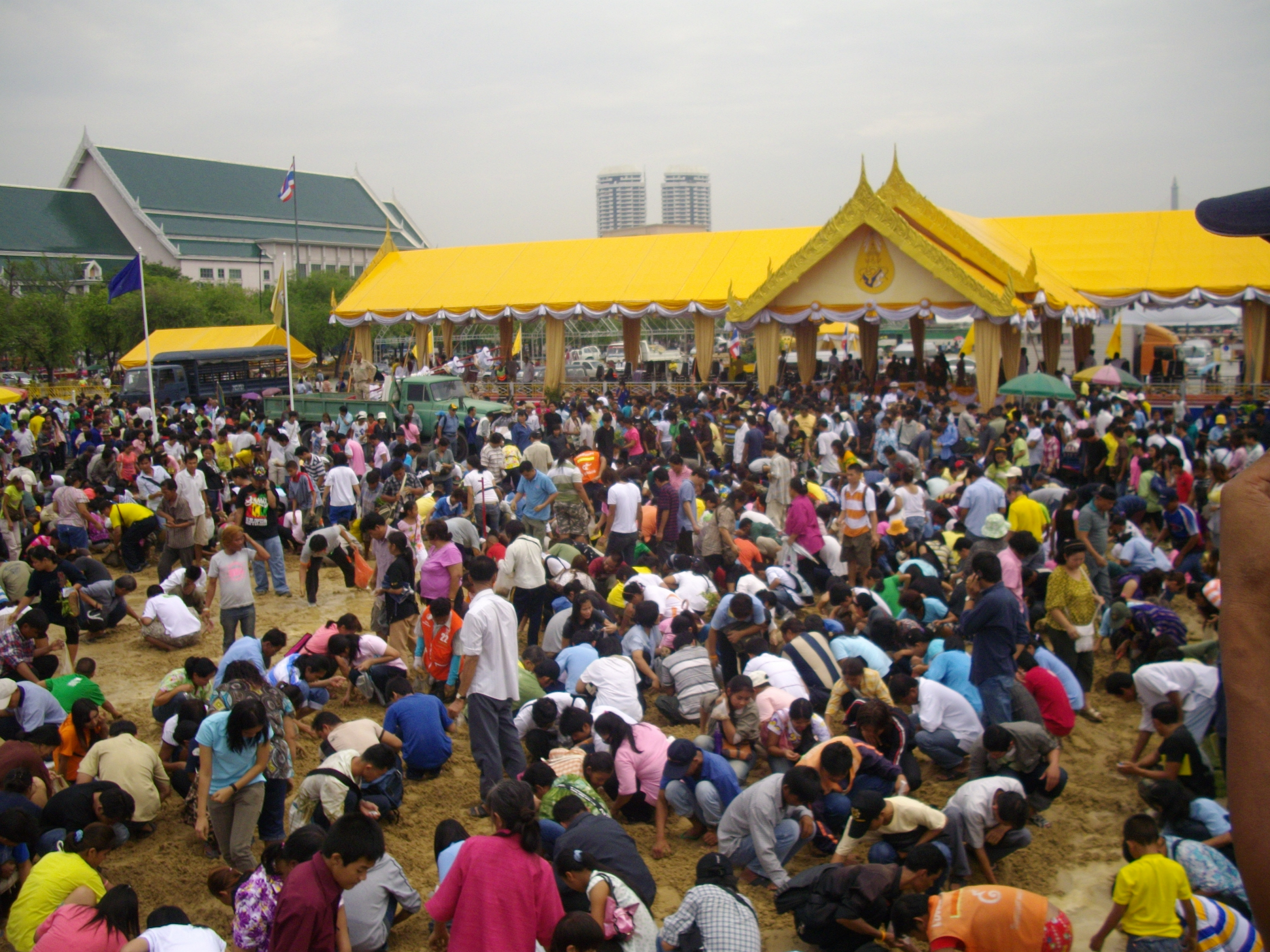 Thai people find the rice after the Royal Ploughing Ceremony at Sanam Luang, Bangkok, 11 May 2009.